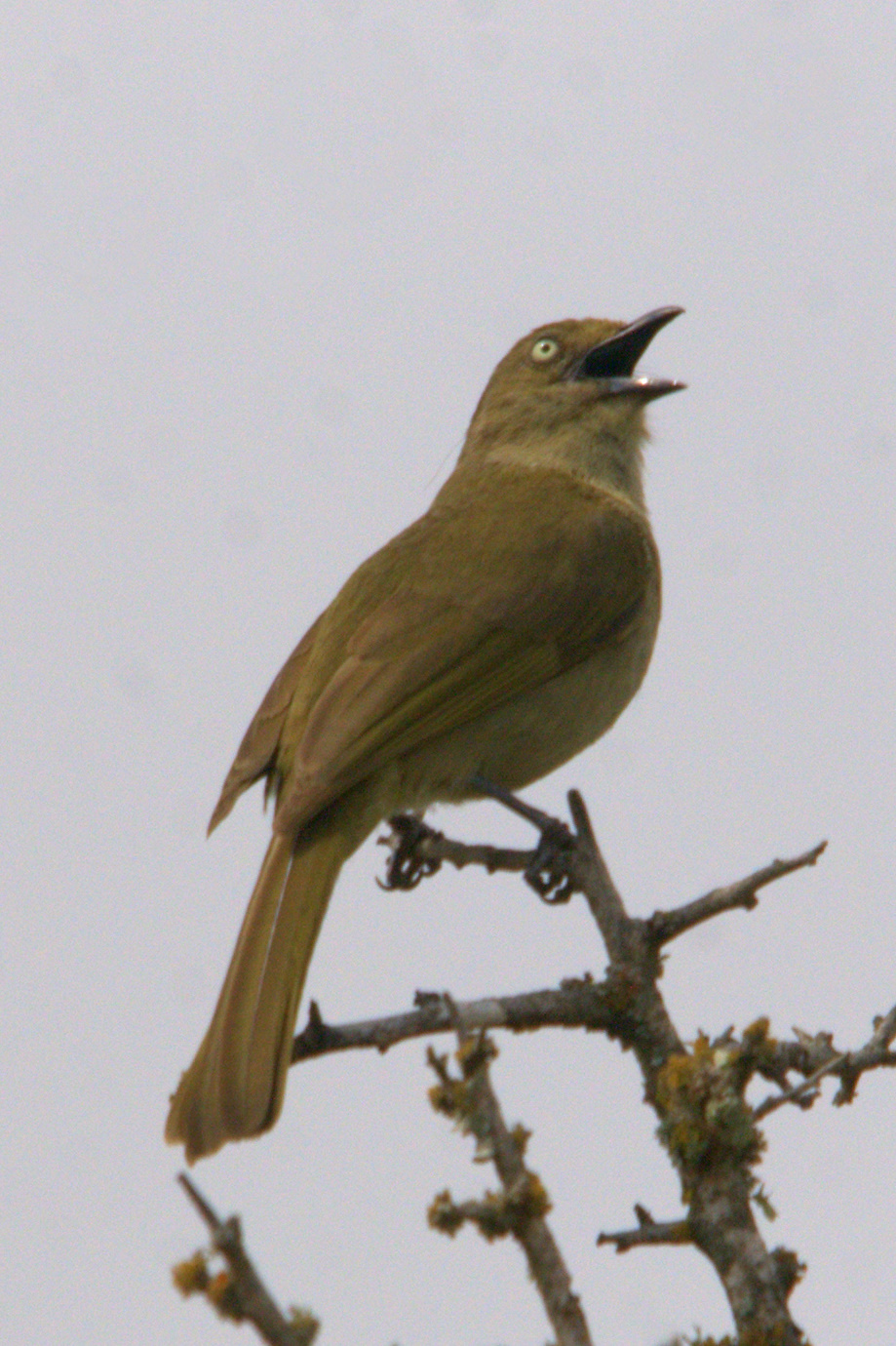 Sombre greenbul (bulbul) at Addo Elephant National Park, Eastern Cape, South Africa